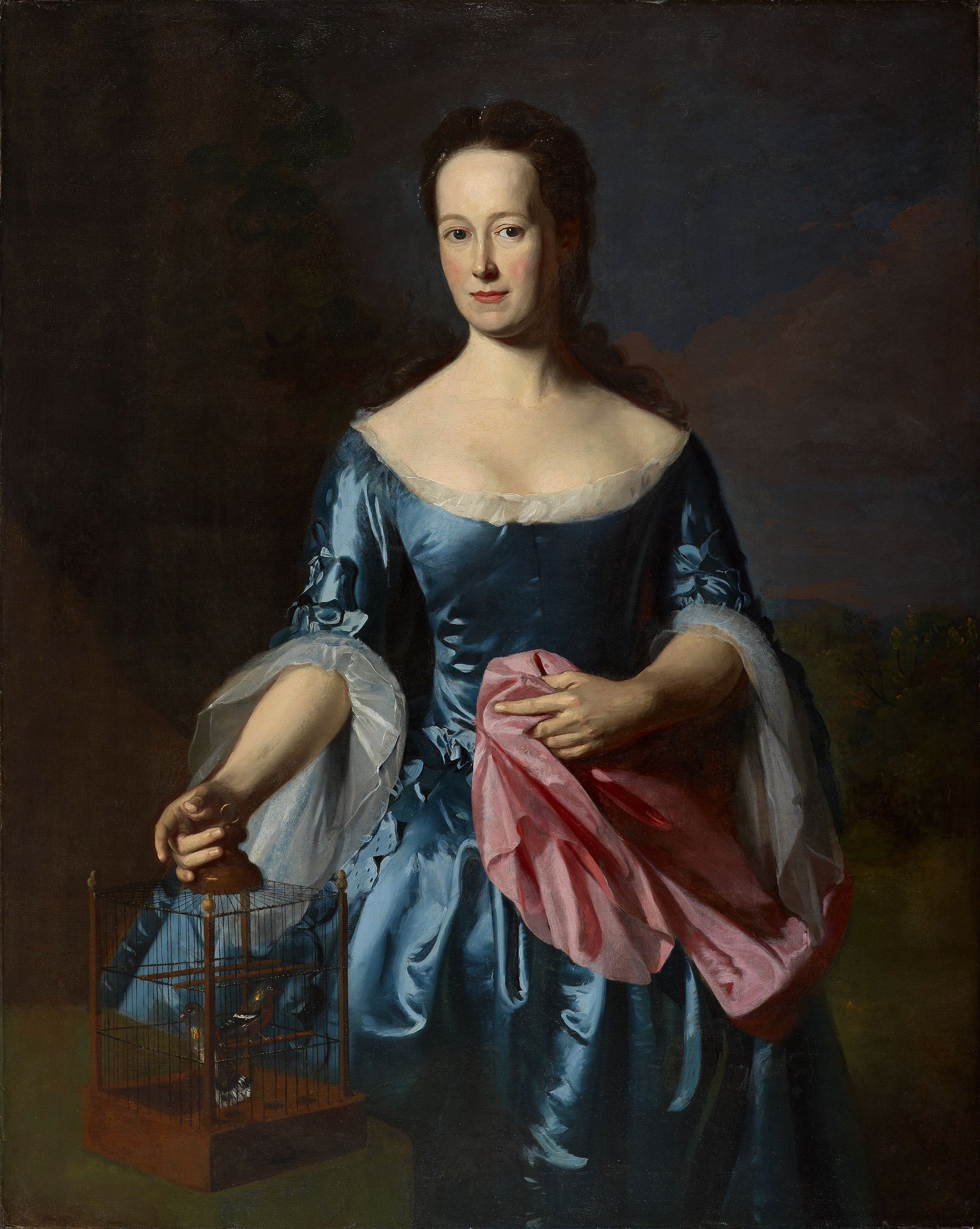 Ann Fairchild Bowler, wife of Newport, Rhode Island merchant and politician Metcalf Bowler.